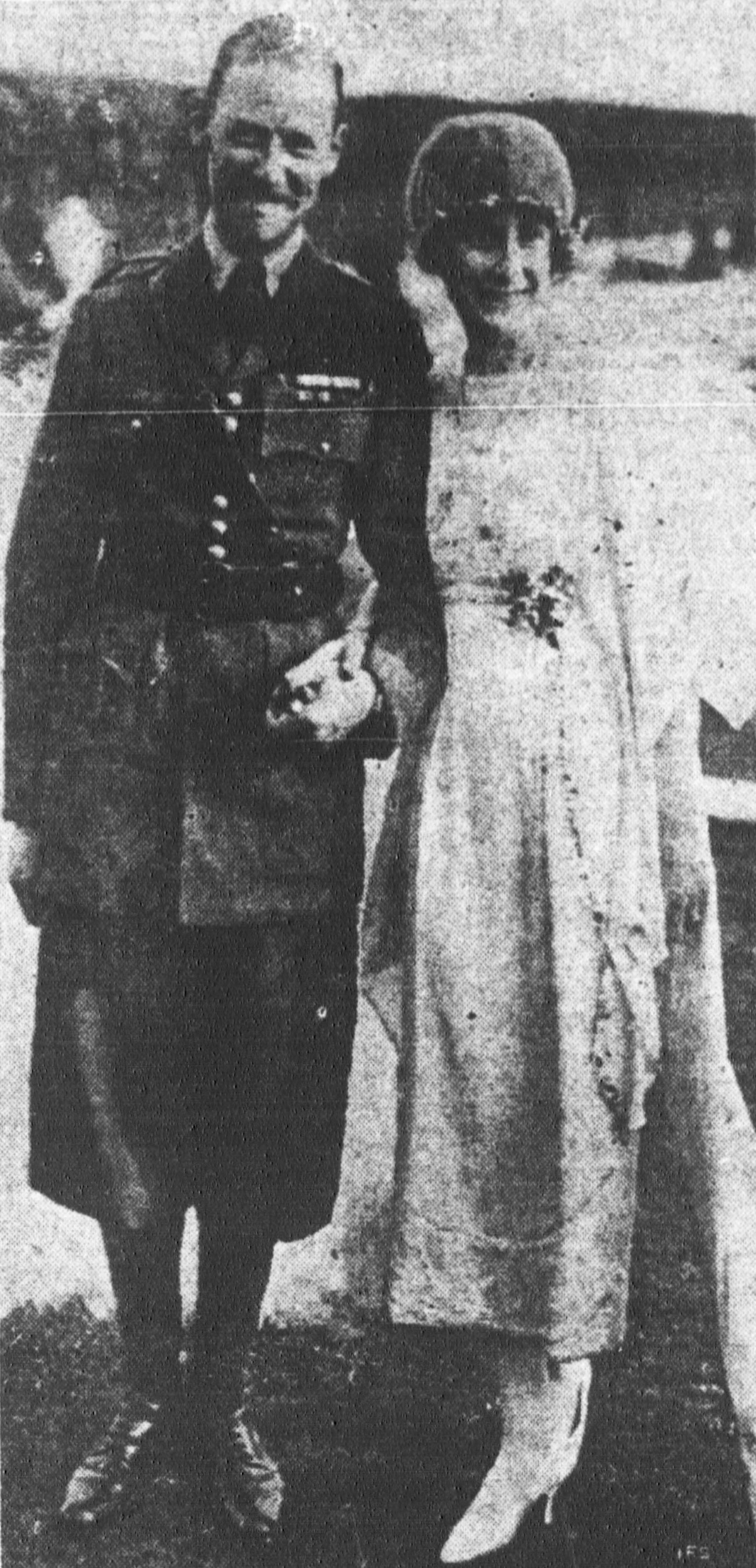 Sir John Charles Oakes Marriott and his wife Maude Khan